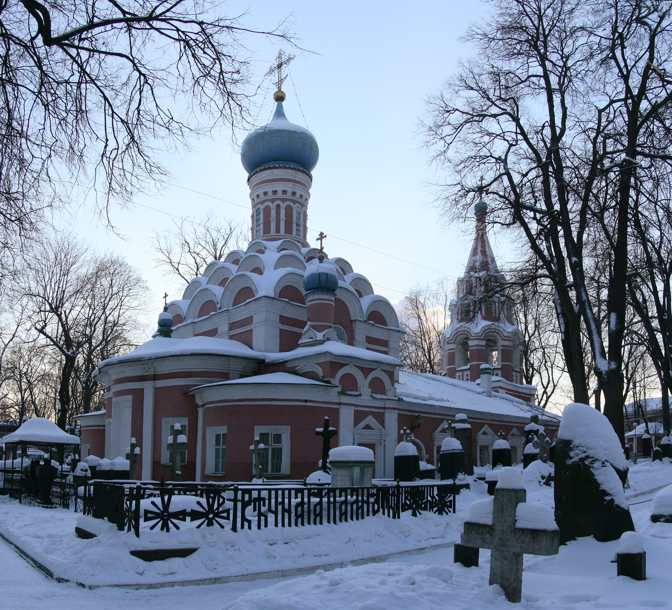 Small Cathedral of the Theotokos of the Don (Donskoy Monastery) 1591-1593б Moscow, Russia